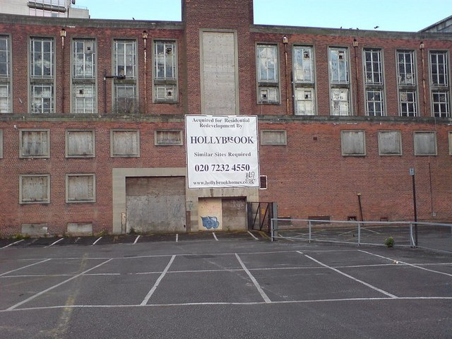 Acquired for residential redevelopment The back of a building on Bond Street, seen from the car park. The building was once a department store.